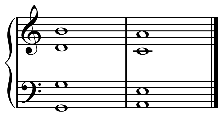 Deceptive cadence in C major.